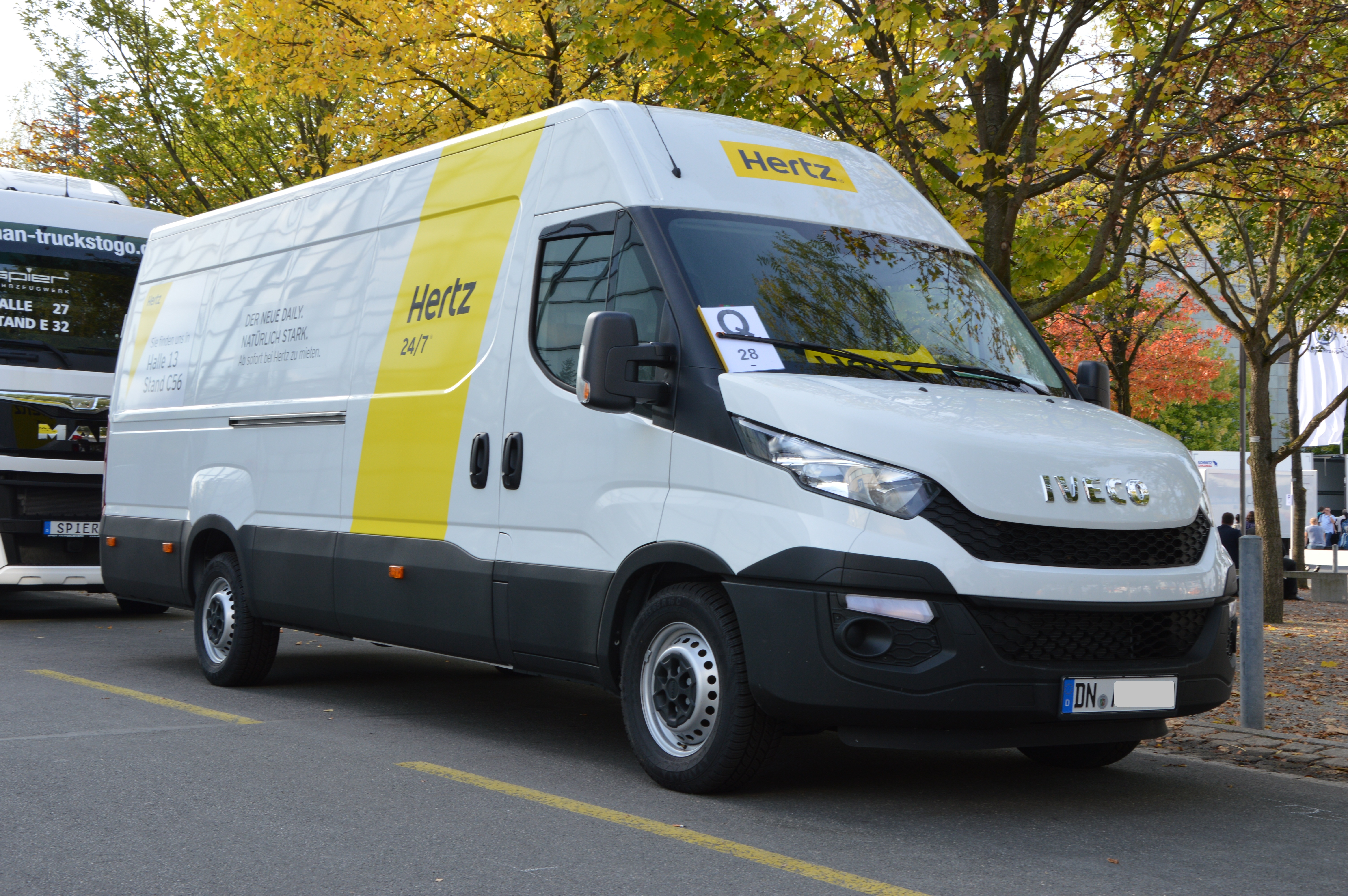 Iveco Daily sixth generation. Photo taken at exhibition IAA 2014 in Hanover, Germany